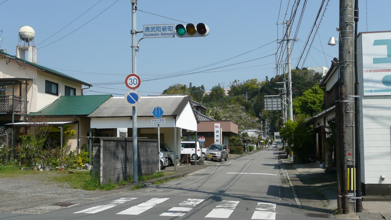 The Miyazaki Prefectural Road Route 27 in Kiyotakecho Shinmachi, Miyazaki City